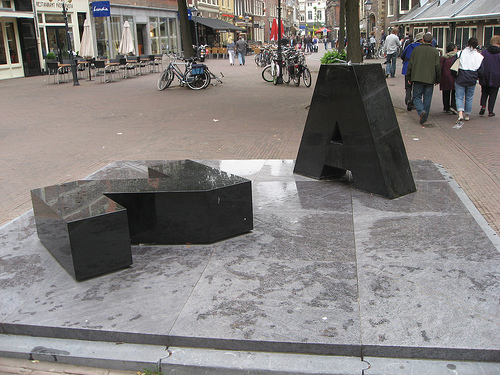 Artwork/Sculpture Oude Groenmarkt Haarlem, The Netherlands, 2007